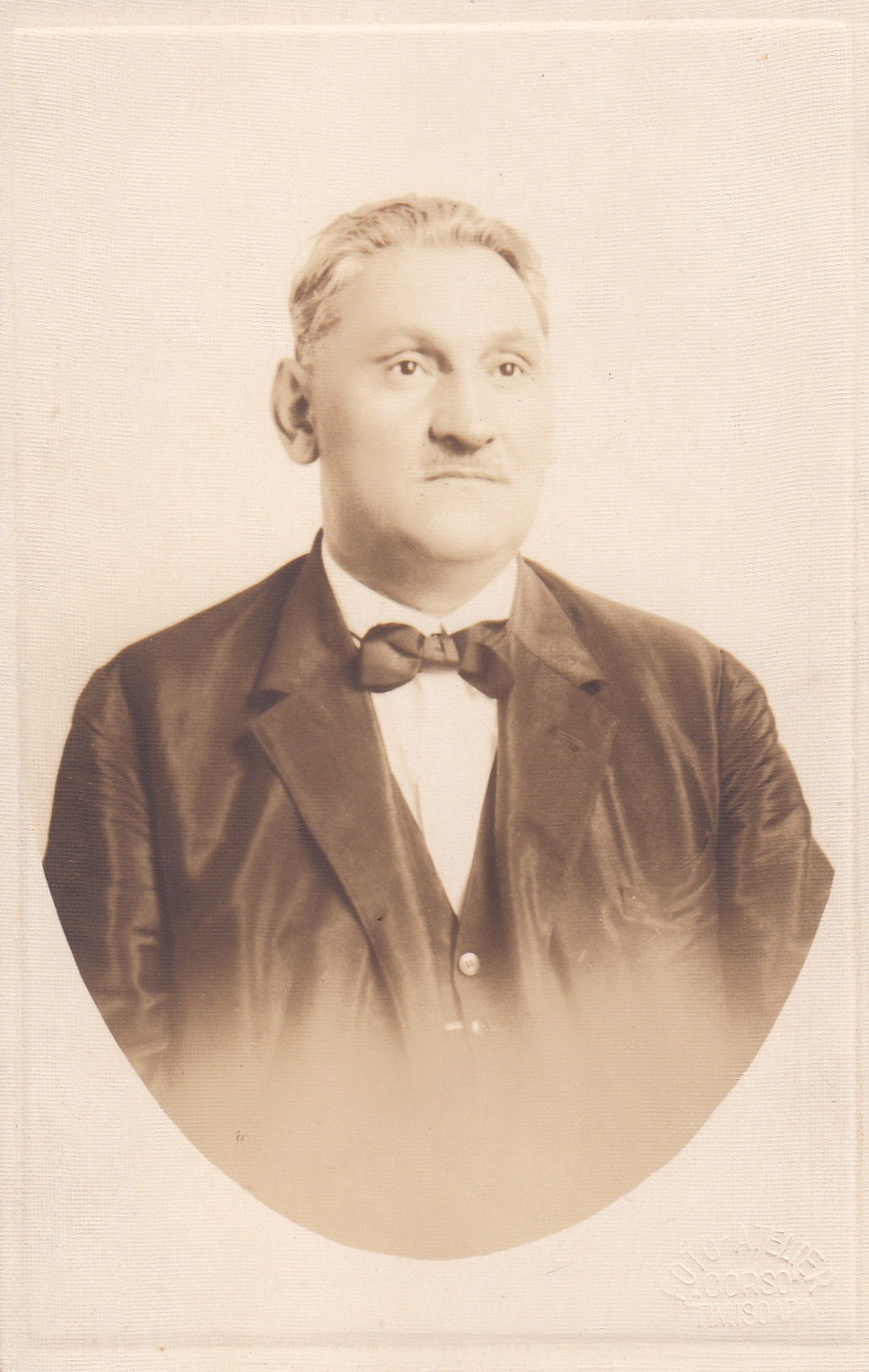 A photograph of Ivan Bujna (1881-1949), Slovak religious writer and evangelical priest. Inventory number 2628. Srpski (latinica): Fotografija Ivana Bujne (1881-1949), slovačkog verskog pisca i evangelističkog sveštenika. Inventarski broj 2628.